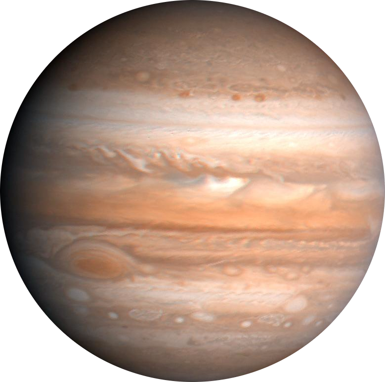 Original Caption Released with Image: This processed color image of Jupiter was produced in 1990 by the U.S. Geological Survey from a Voyager image captured in 1979. The colors have been enhanced to bring out detail. Zones of light-colored, ascending clouds alternate with bands of dark, descending clouds. The clouds travel around the planet in alternating eastward and westward belts at speeds of up to 540 kilometers per hour. Tremendous storms as big as Earthly continents surge around the planet. The Great Red Spot (oval shape toward the lower-left) is an enormous anticyclonic storm that drifts along its belt, eventually circling the entire planet.